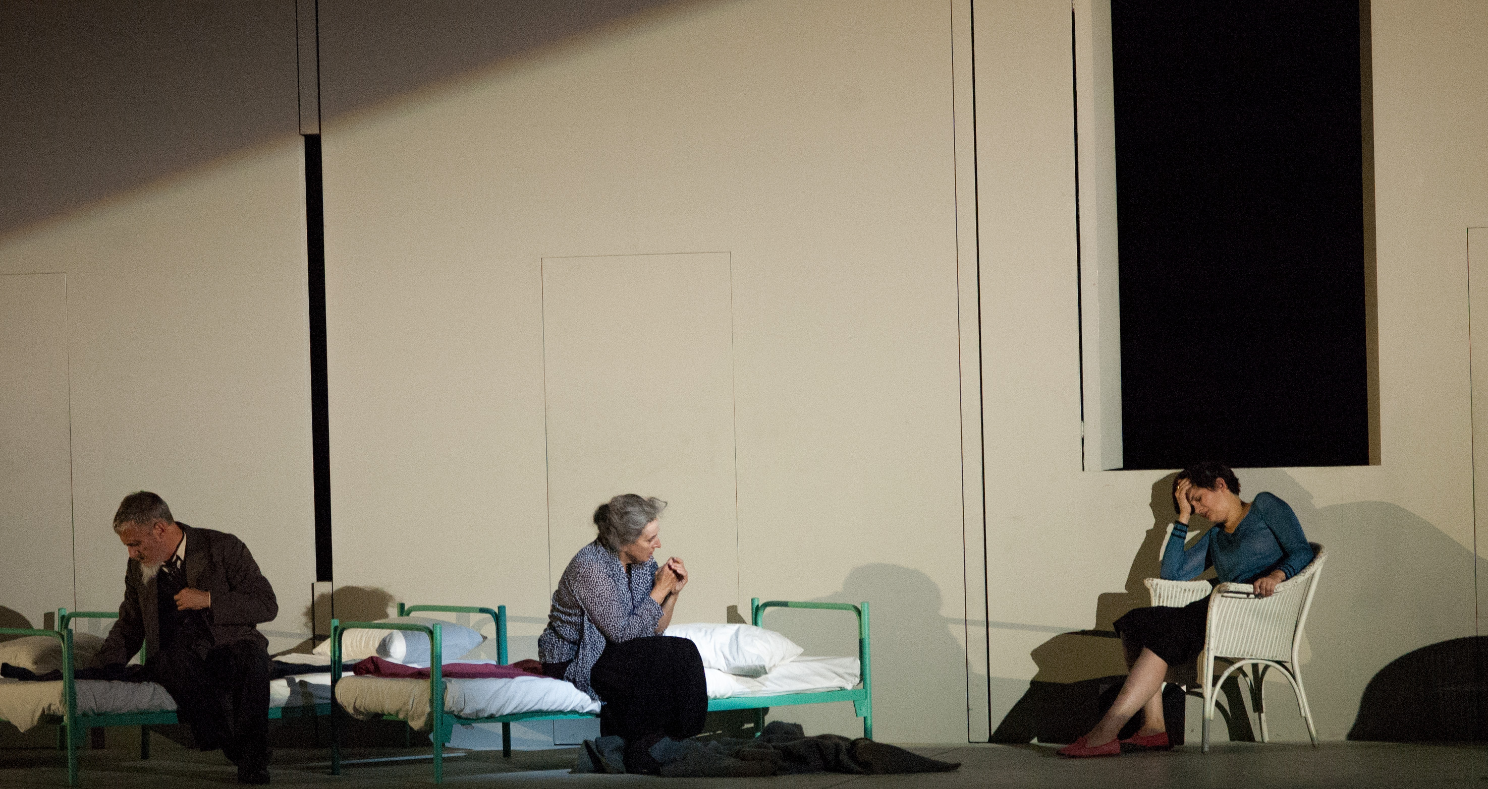 Charlotte Salomon, opera by Marc-André Dalbavie, World Premiere at the Salzburg Festival 2014, with Marianne Crebassa (Charlotte Kann), Cornelia Kallisch (Frau Knarre) and Vincent LeTexier (Herr Knarre)